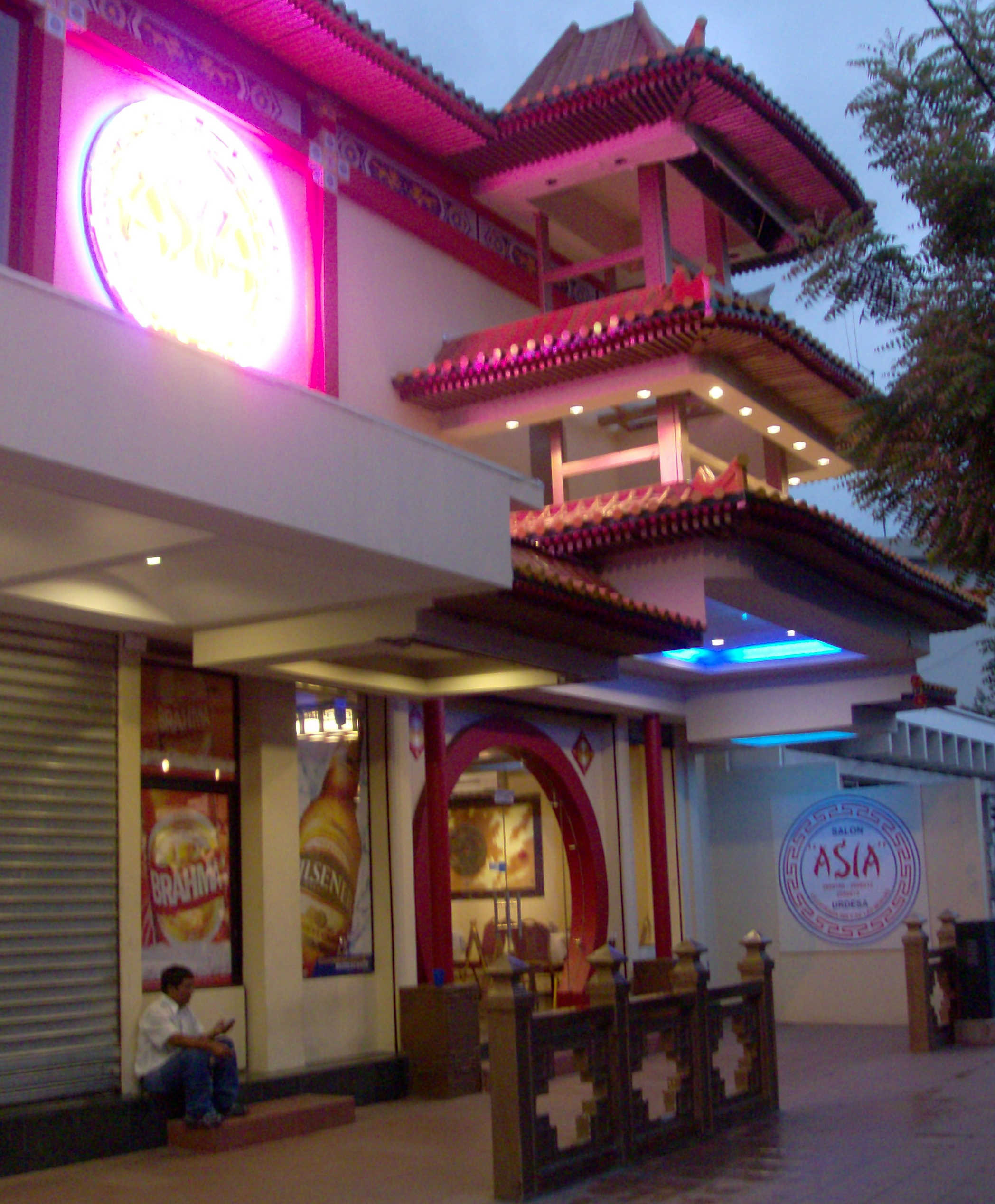 asia restaurant, in Guayaquil, Ecuador